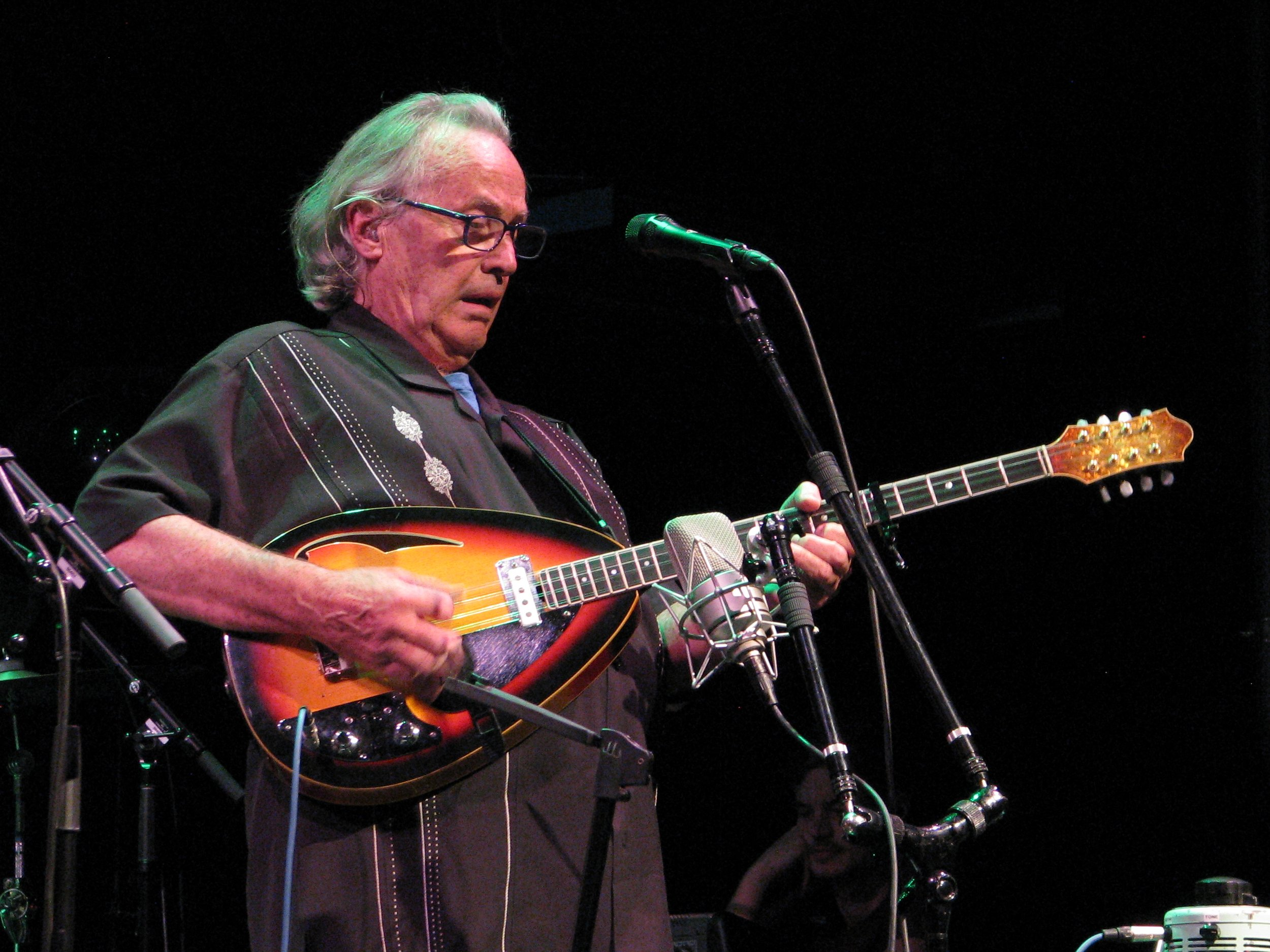 Ry Cooder performing with Ricky Skaggs and Sharon White, McGlohon Theater, Charlotte, NC, August 19, 2015